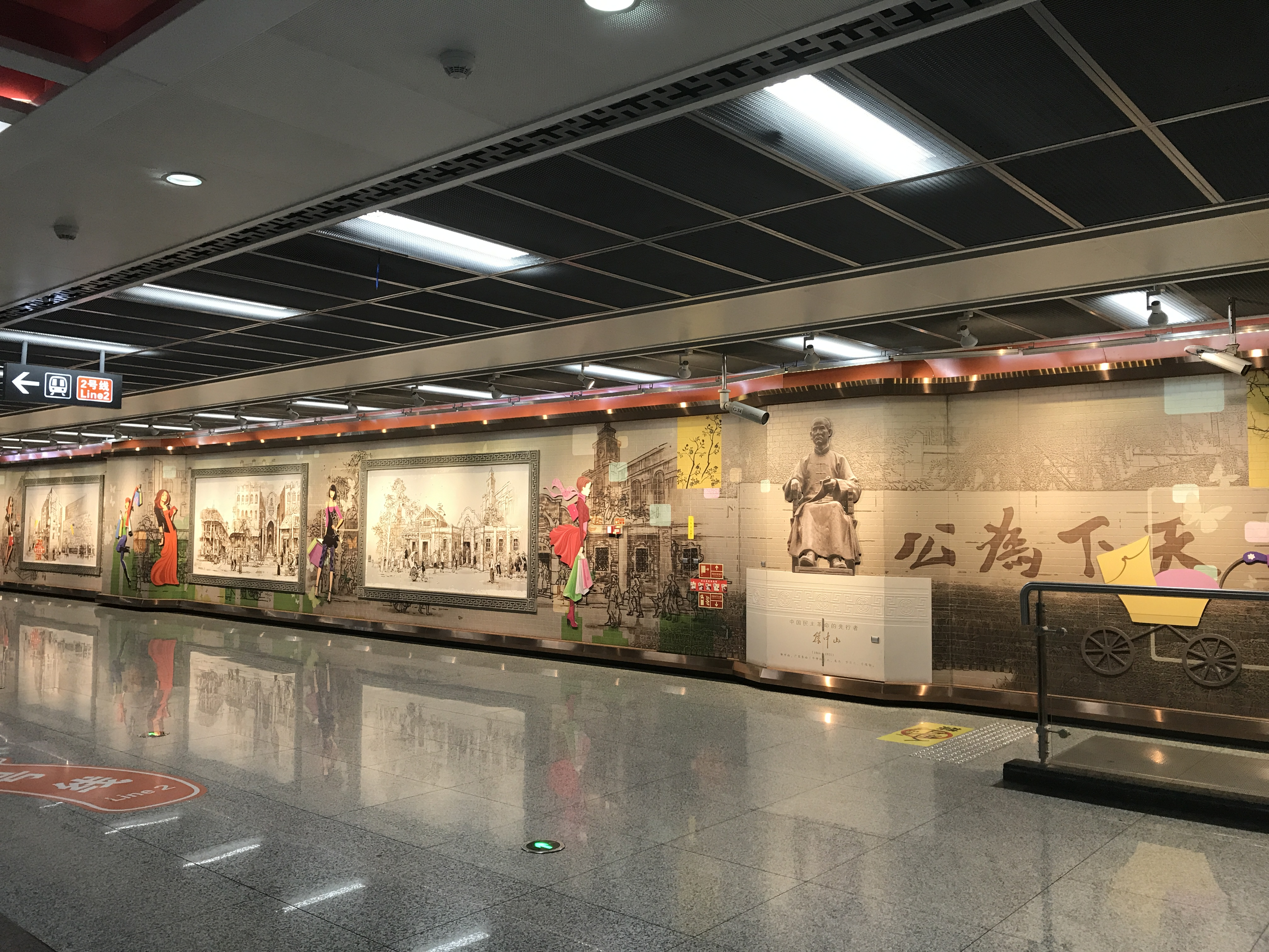 Wall Art in Chunxi Road Station, Chengdu Metro